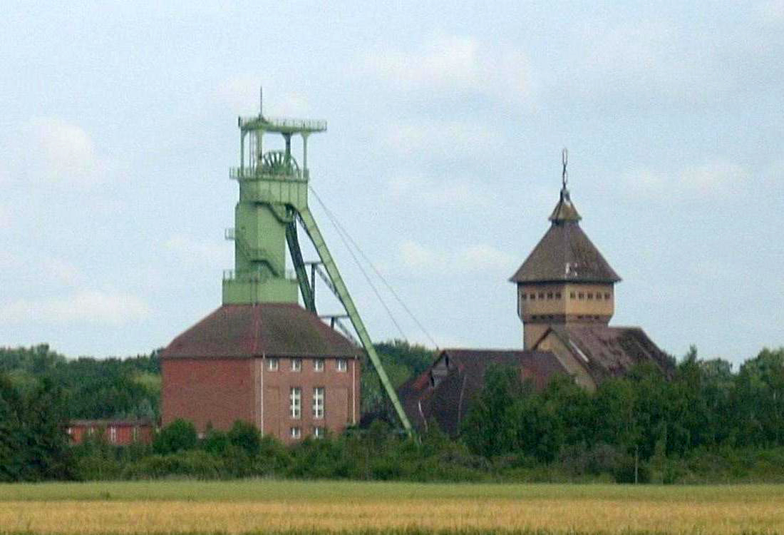 Potassium mine buildings, Lehrte (Germany)